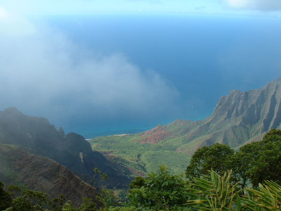 Kalalau Lookout - of the Kalalau Valley from Koke'e State Park. "I took this photo during a visit to Koke'e State Park in Hawaii in August, 2005."